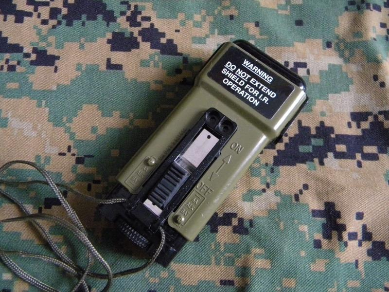 MS-2000 Distress Marker Light